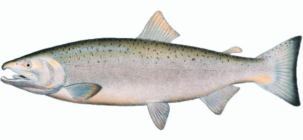 Coho salmon Based on the drawing from Silver or Coho salmon, adult male. In: "The Fishes of Alaska." Bulletin of the Bureau of Fisheries, Vol. XXVI, 1906. P. 360, Plate XXXI. which is at